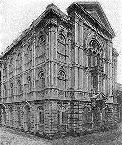 Keneseth Eliyahu Synagogue, Bombay. End of the XIXth century, or begining of the XXth century.